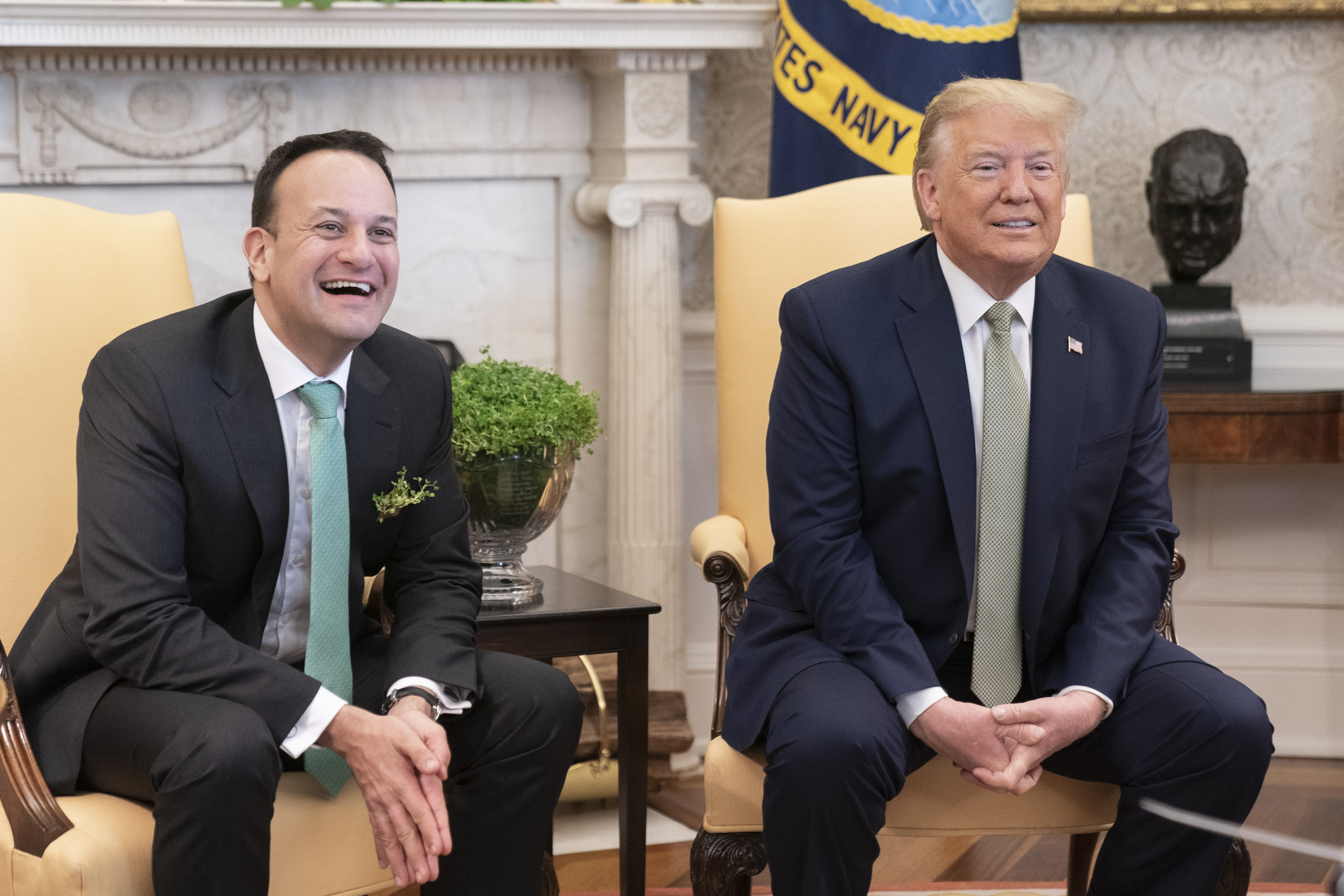 President Donald j. Trump and Irish Prime Minister Leo Varadkar meet with reporters Thursday, March 12, 2020, in the Oval Office of the White House. (Official White House Photo by Shealah Craighead)